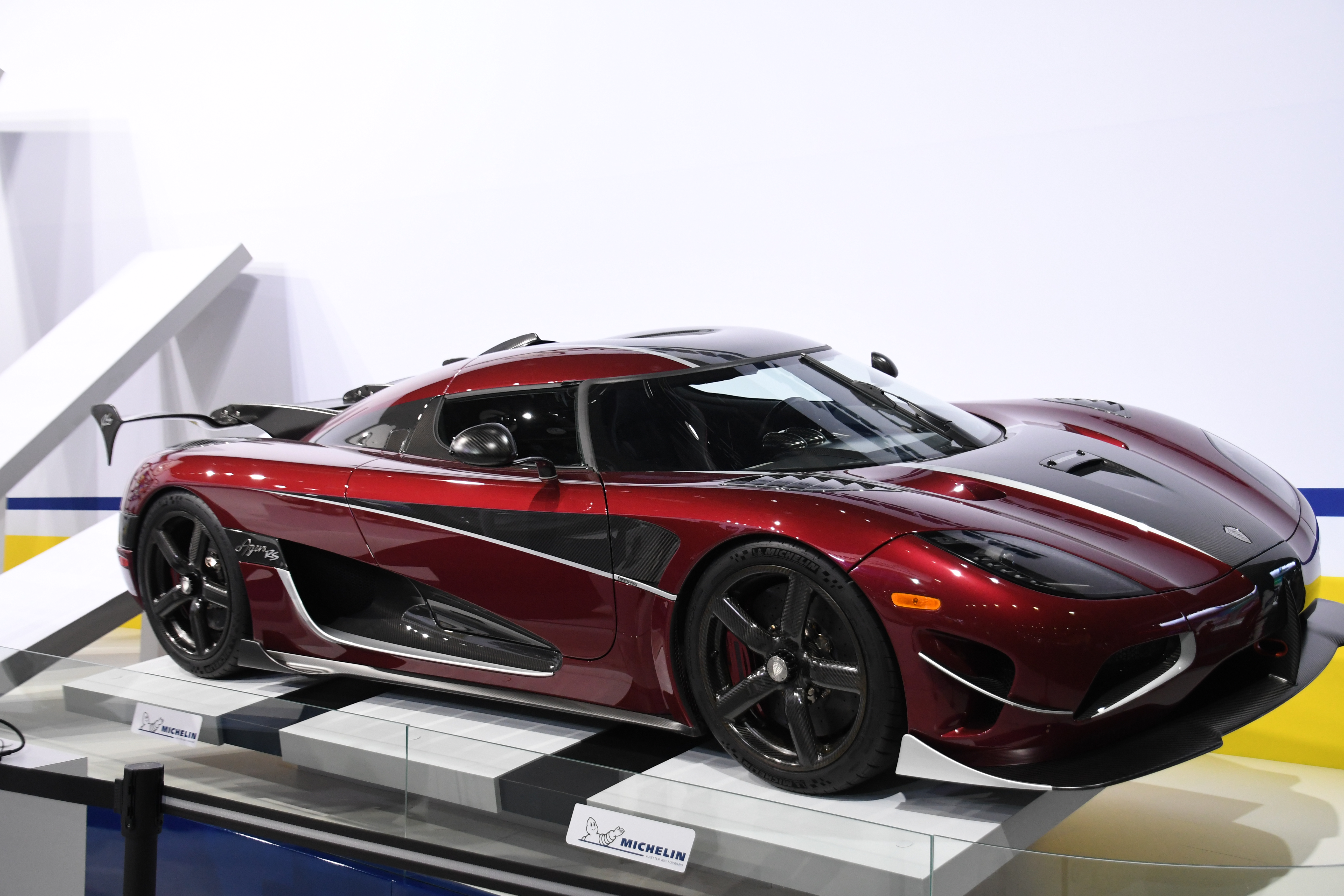 A scene from public display days of the 2018 North American International Auto Show held in Cobo Center in downtown Detroit, Michigan. January, 2018